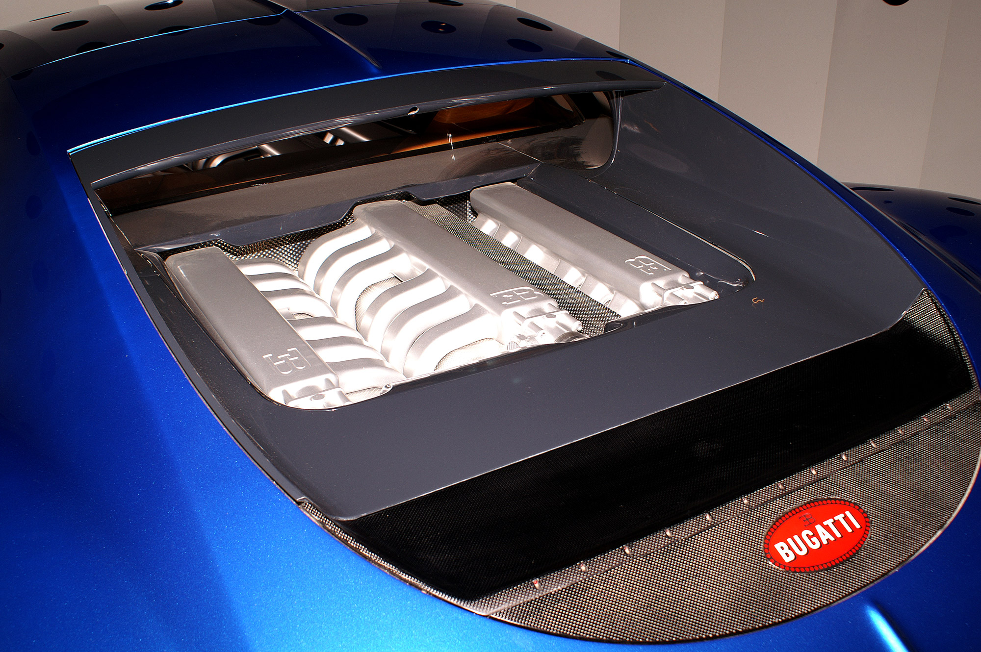 Bugatti 18/3 Chiron as it currently sits.